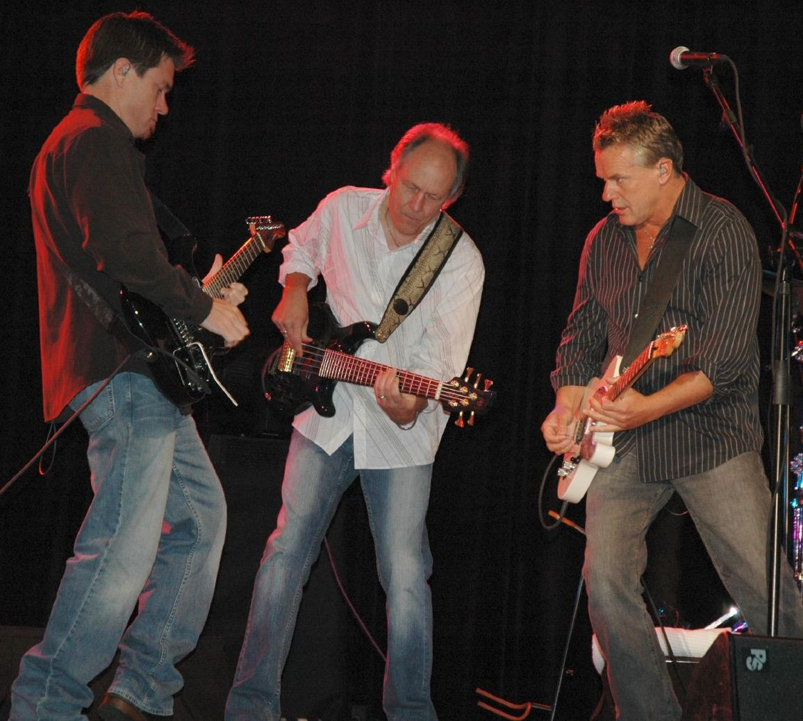 Plagiarised not original - Little River Band performing at the Seminole Hard Rock Hotel & Casino. The original band was formed in Australia and the name Little River Band was not conceived by these people in the photo. They are just living off the original bands fame.